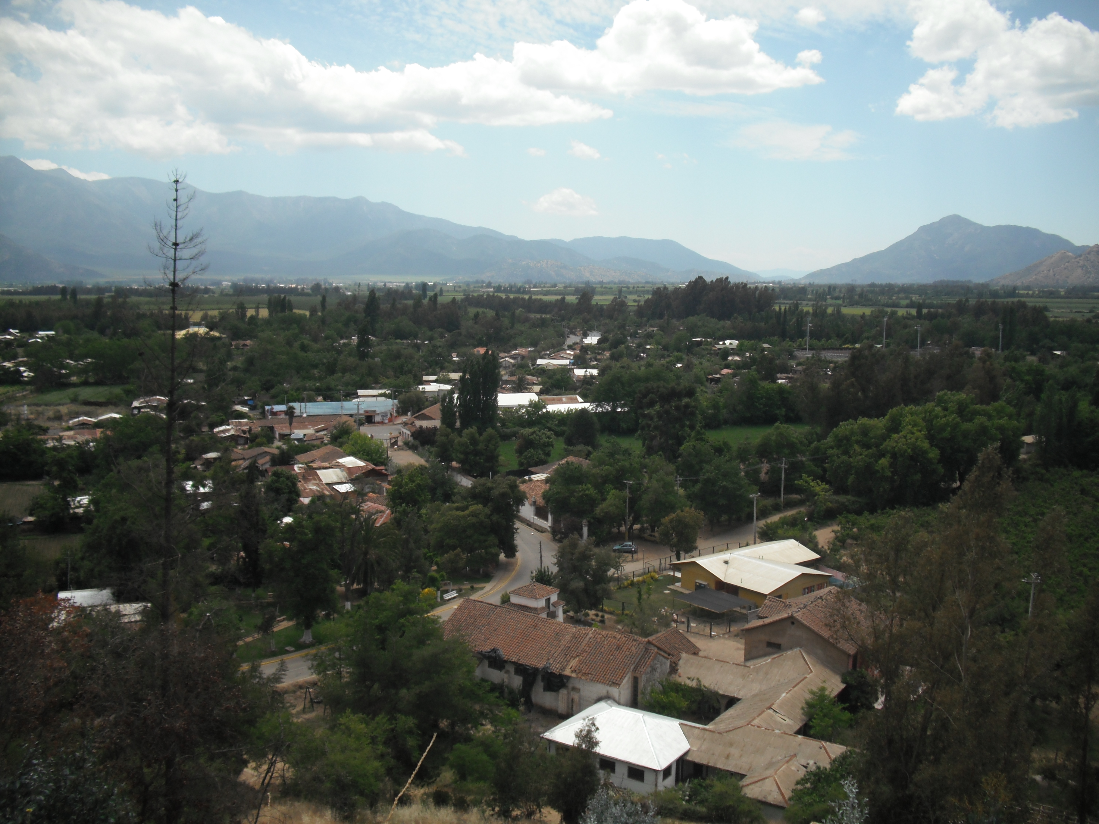 La Punta Region O'Higgins